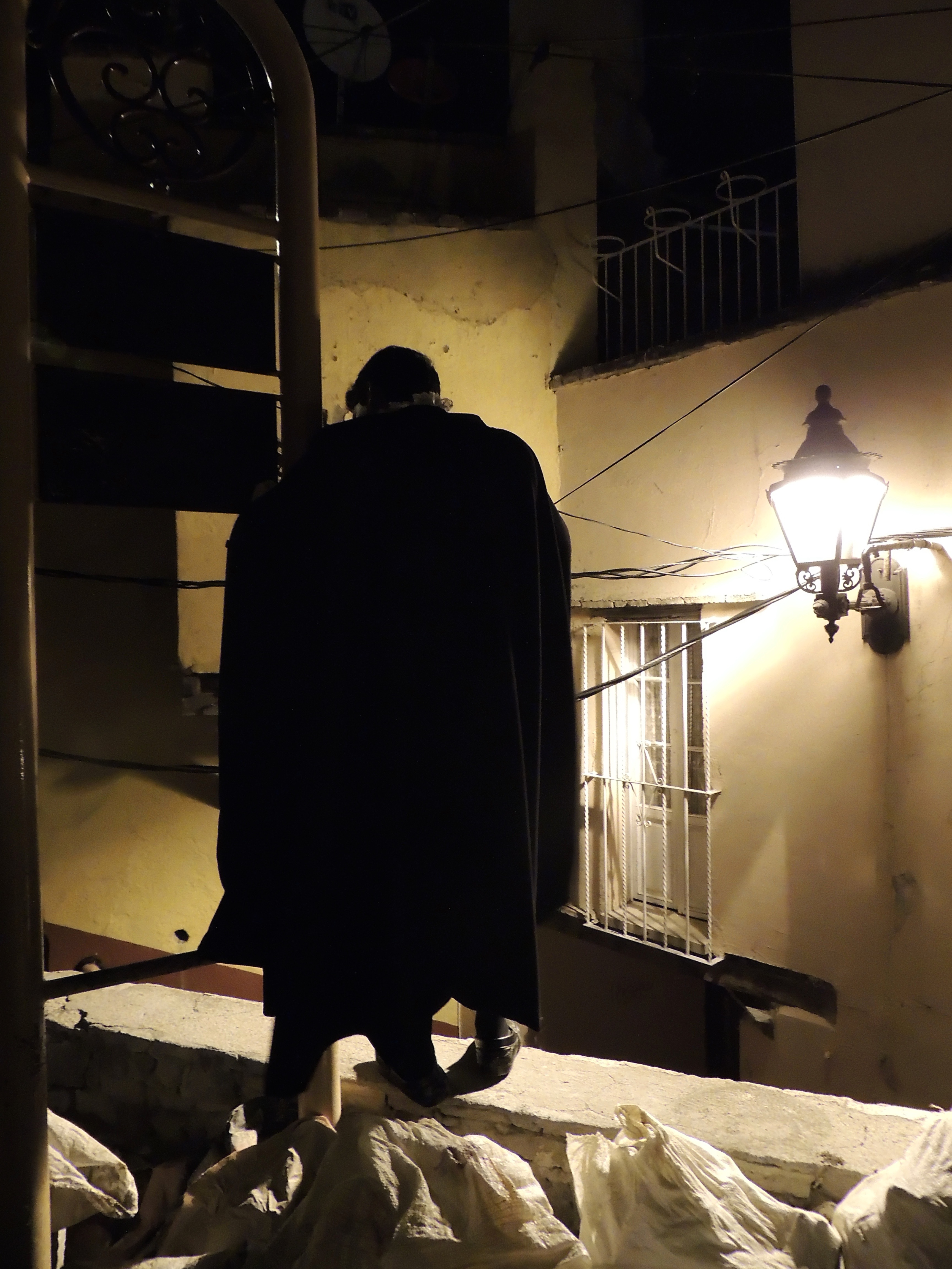 A man in the darkness during a "Callejoneada", a show performed nightly in Guanajuato, people walk through the streets of the city singing traditional Mexican songs led by a band. Guanajuato, Guanajuato, Mexico.